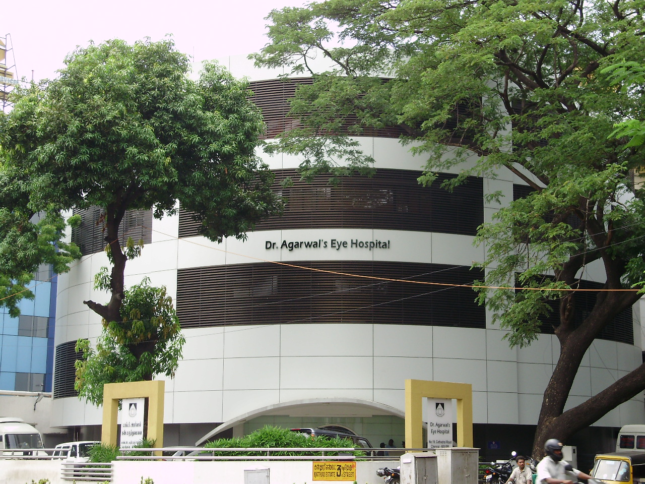 Dr.Agarwal Eye Hospital on Cathedral Road, Chennai, India. ONe of the famous Eye Hospitals in Chennai City.